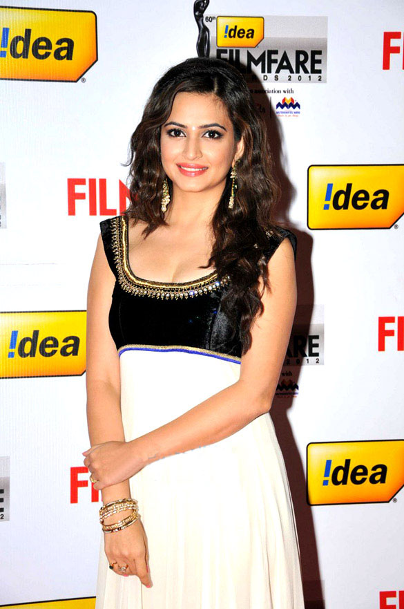 Kriti Kharbanda at 60th South Filmfare Awards 2013